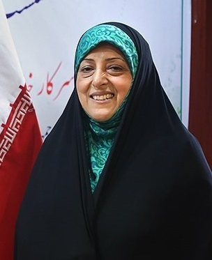 Masoumeh Ebtekar, Vice President of Iran